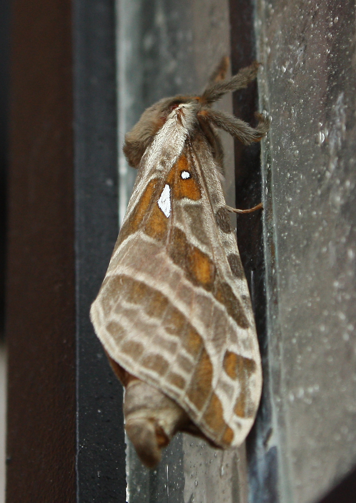 Sthenopis argenteomaculatus (Lepidoptera: Hepialidae). Found near an outside light in Bonaventure, Gaspésie, Québec. June 30, 2016.